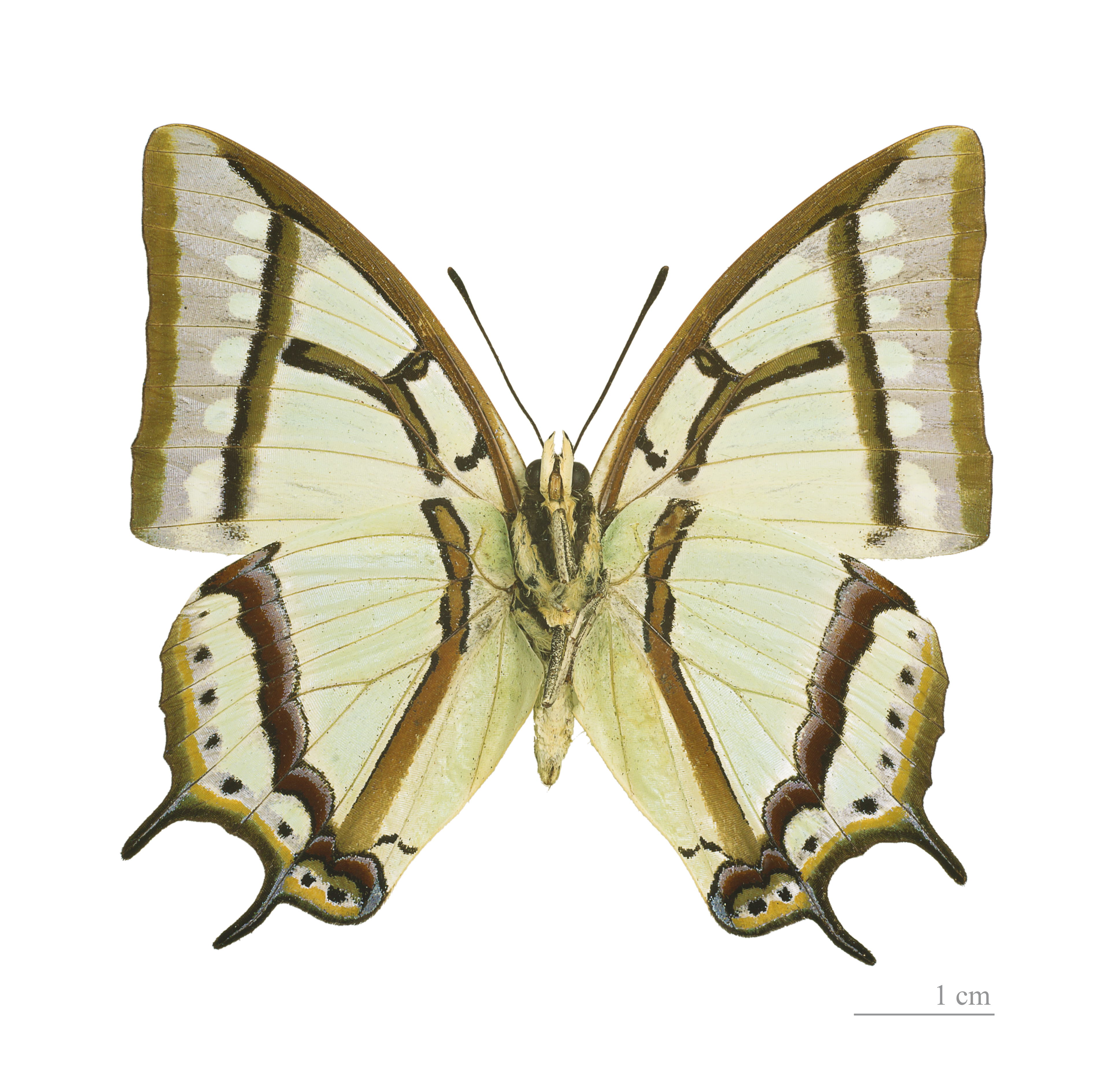 ♂ - Dorsal side Locality: Puli, Nantou County, Taiwan